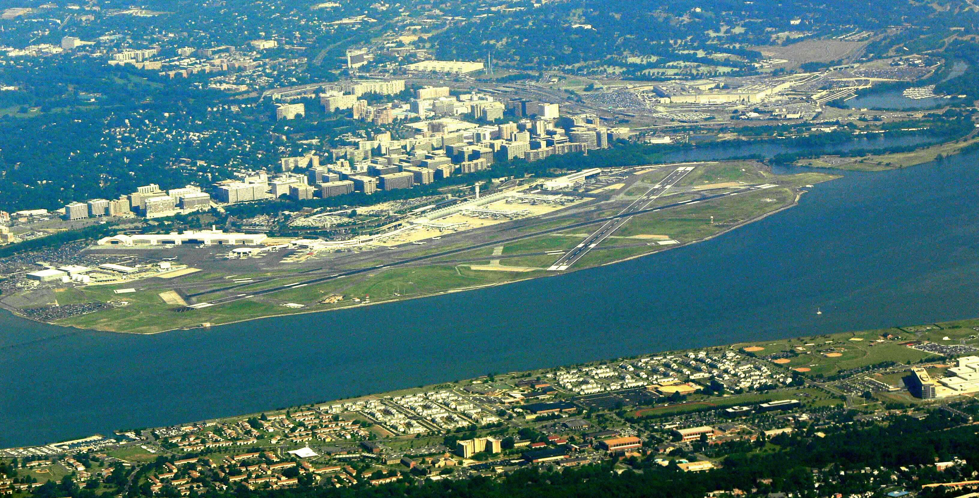 Ronald Reagan Washington National Airport, Arlington County, Virginia (near Washington, D. C.)